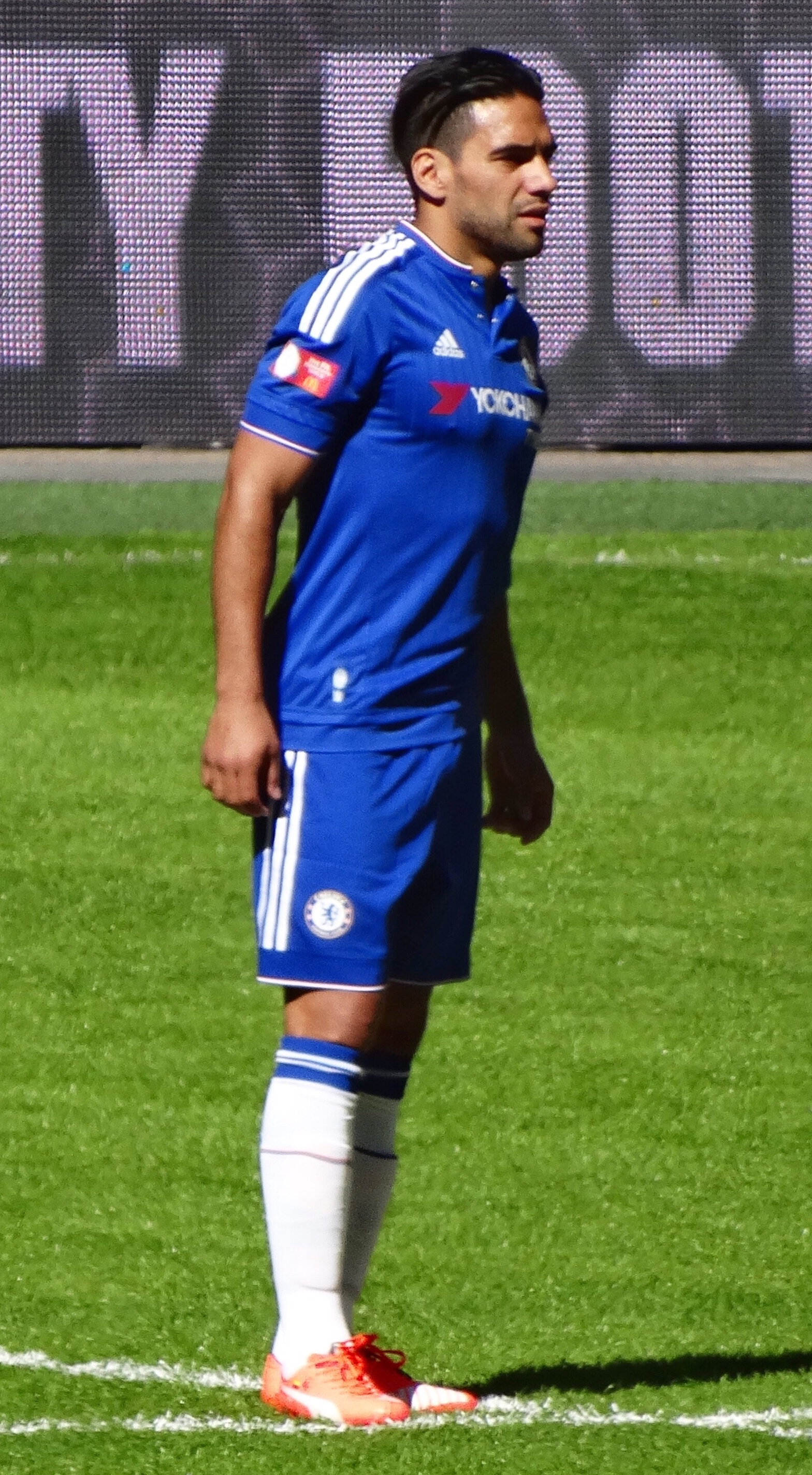 Arsenal 1 Chelsea 0 (cropped version)